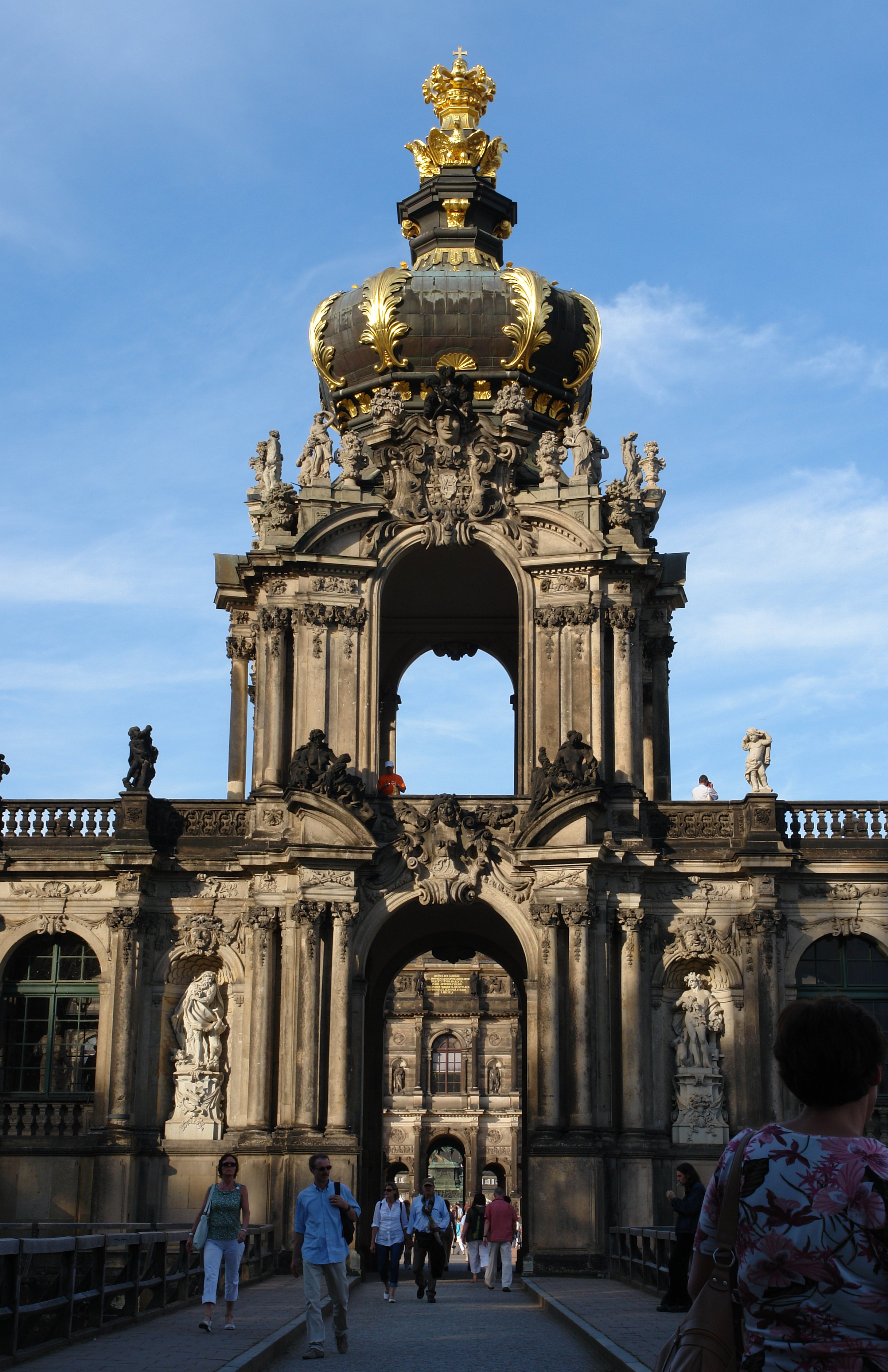 Crown Gate of the Zwinger, Dresden